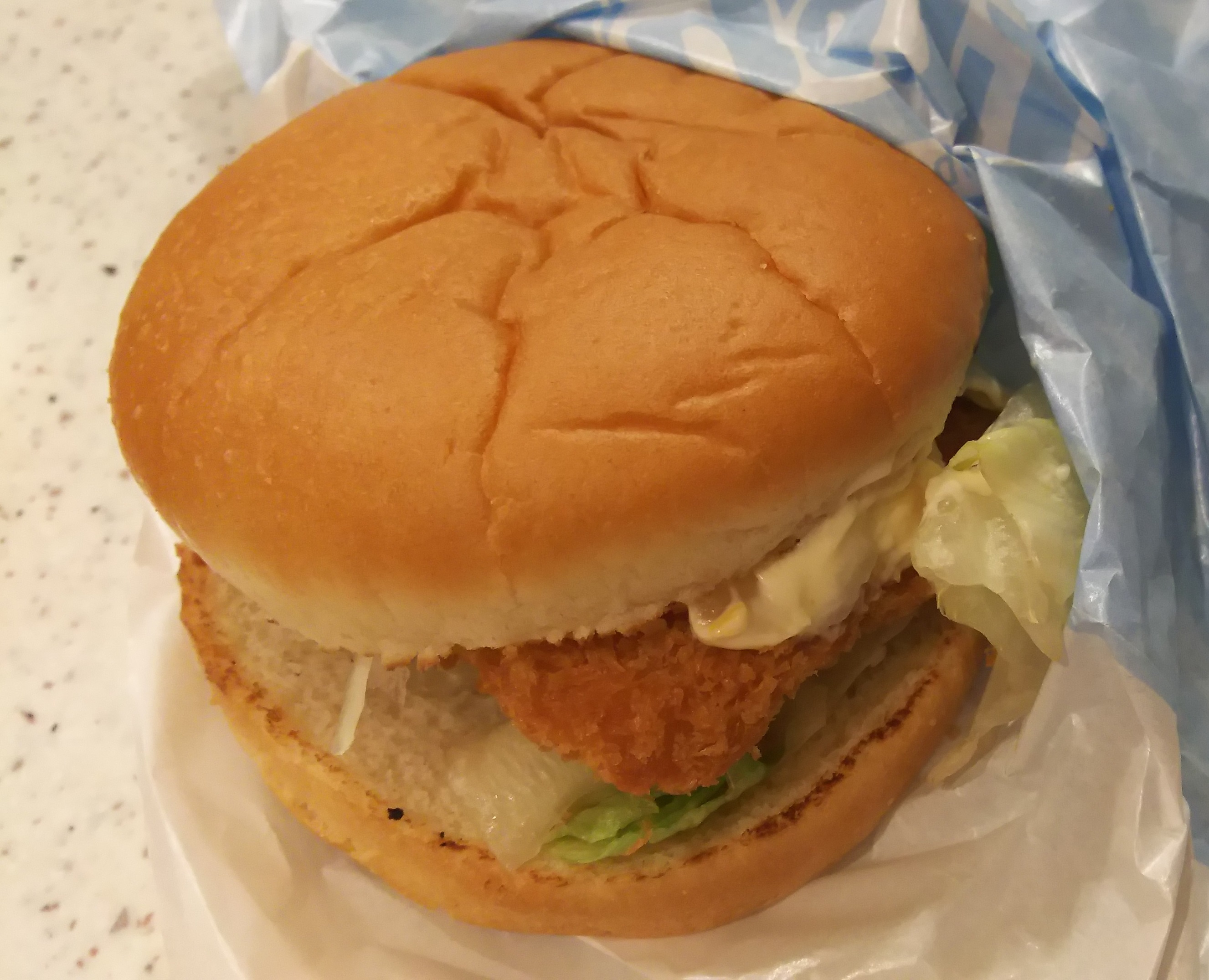 This is a salmon burger specially-made by LOTTERIA.